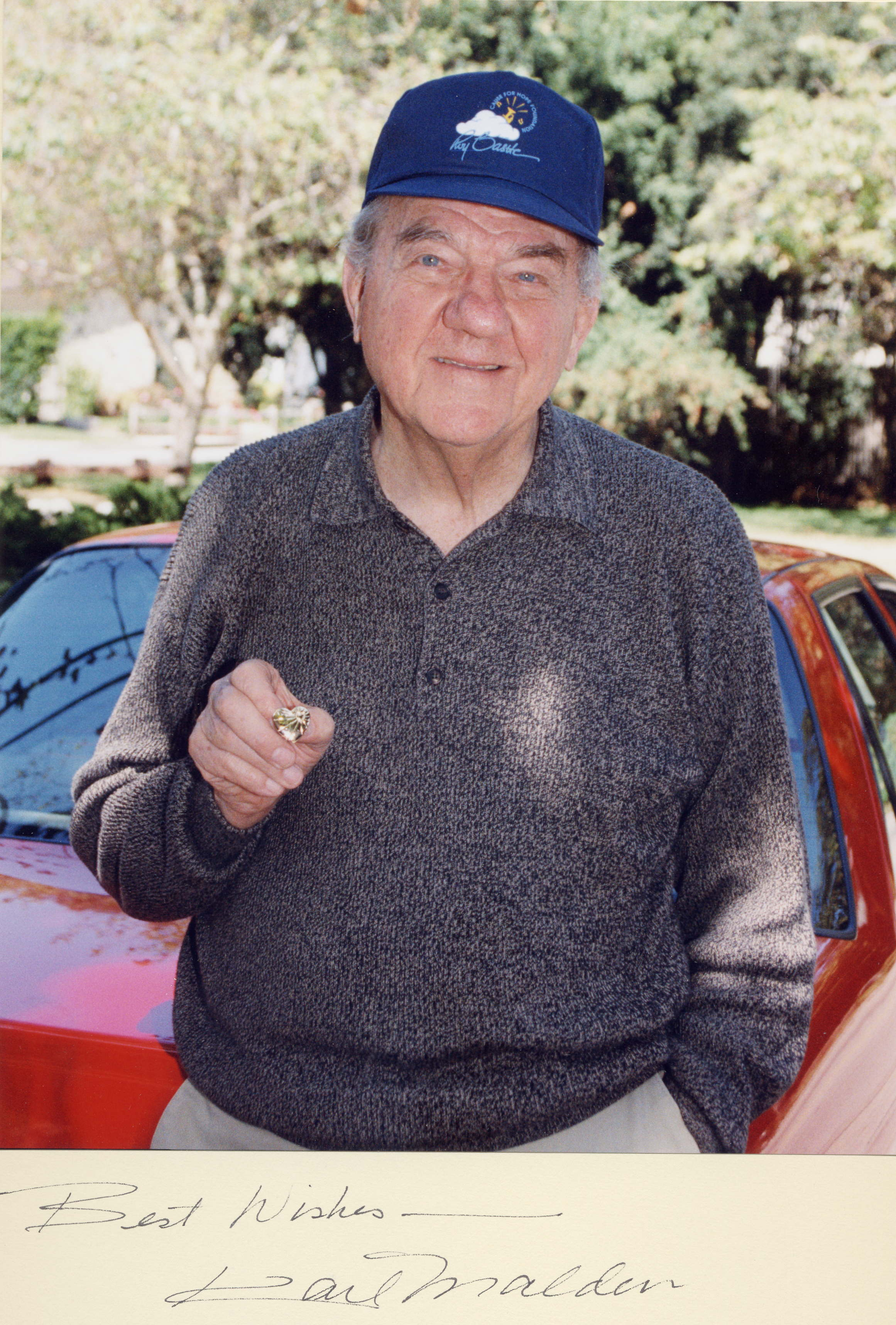 Karl Malden displays Variety Club Gold Hearts brooche